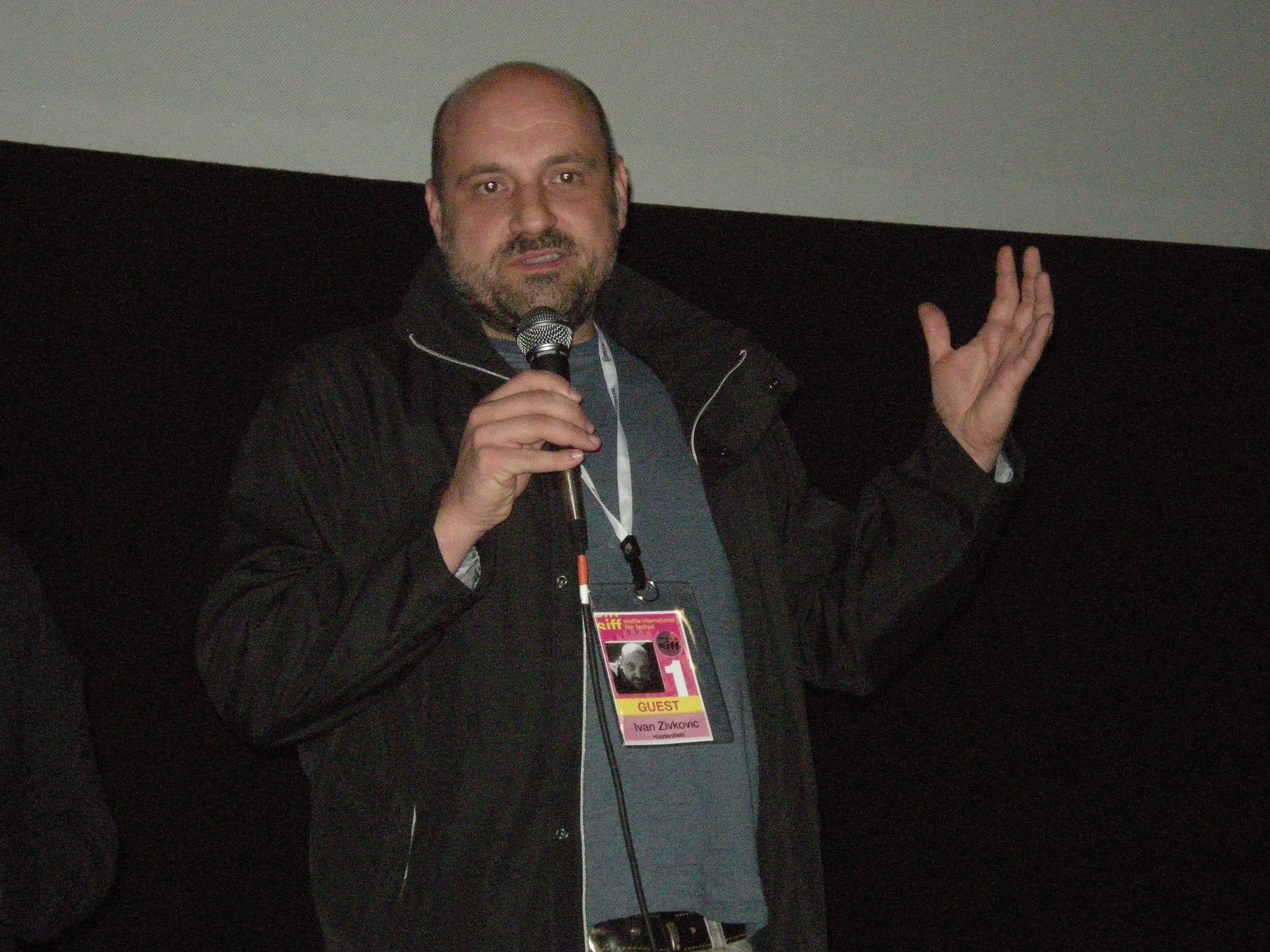 Serbian film director Ivan Zivkovic attends his film Huddersfield at the Seattle International Film Festival.